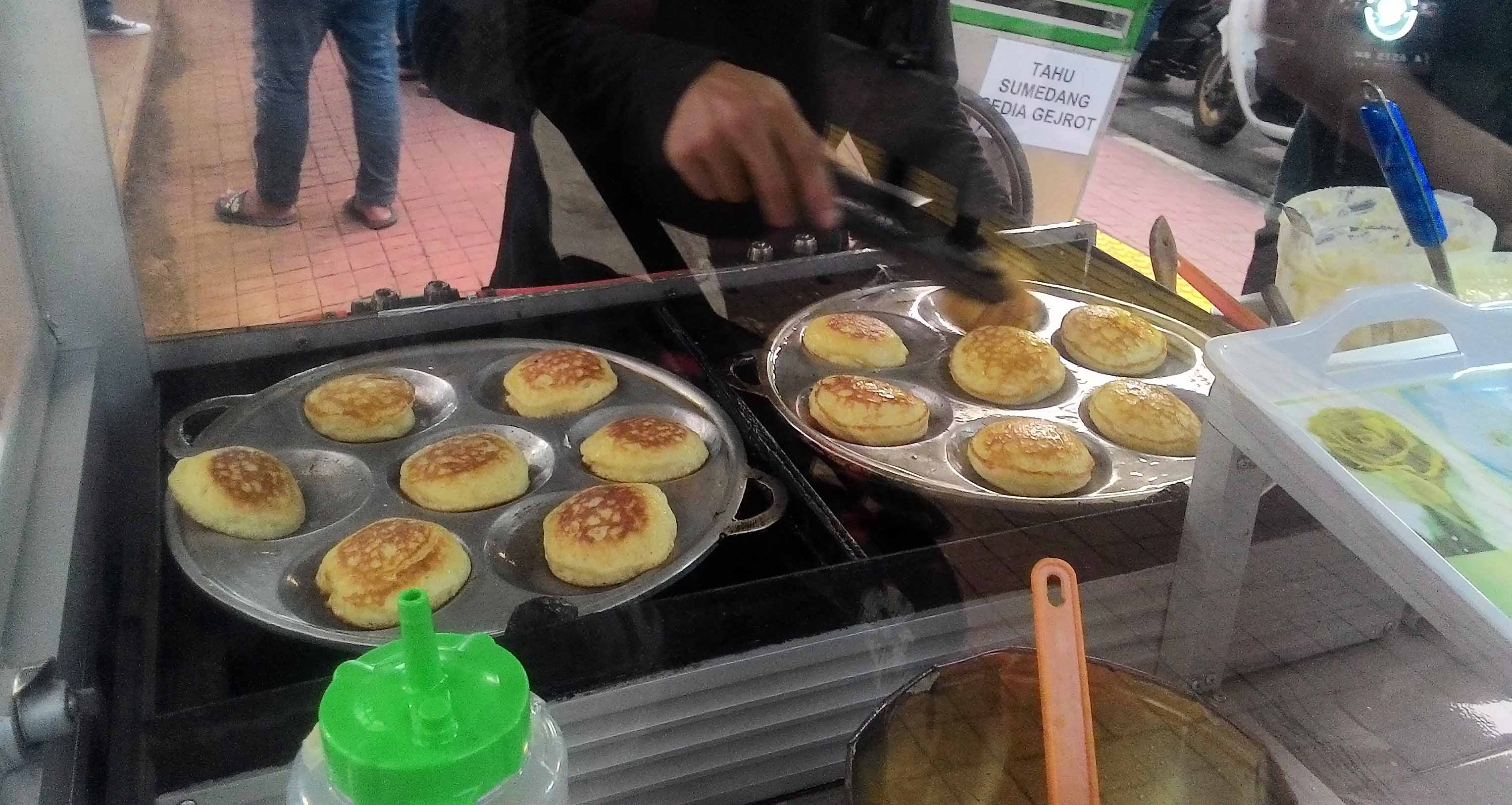 Cooking kue samir or kue kamir, sweet small pancake made of flour, egg, and margarine, sold on the street side near Palmerah Station, Jakarta, Indonesia.